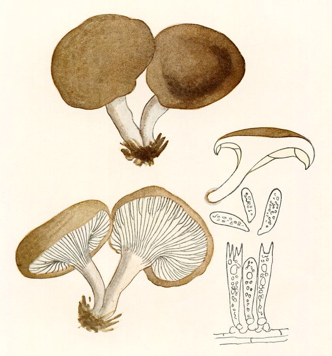 Pleurotus eryngii (as Pleurotus fuscus)